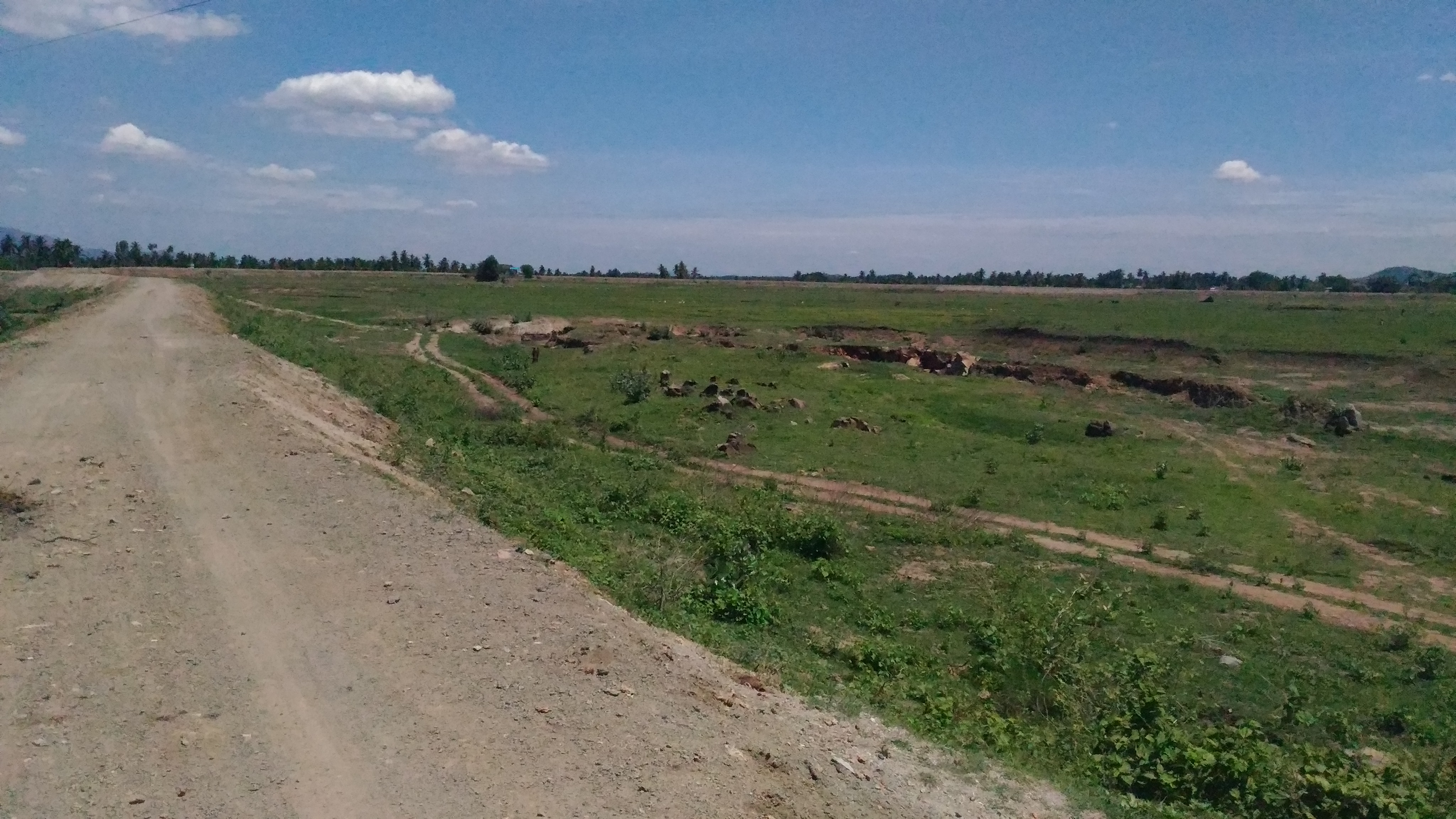 Vadamaneri from east shore